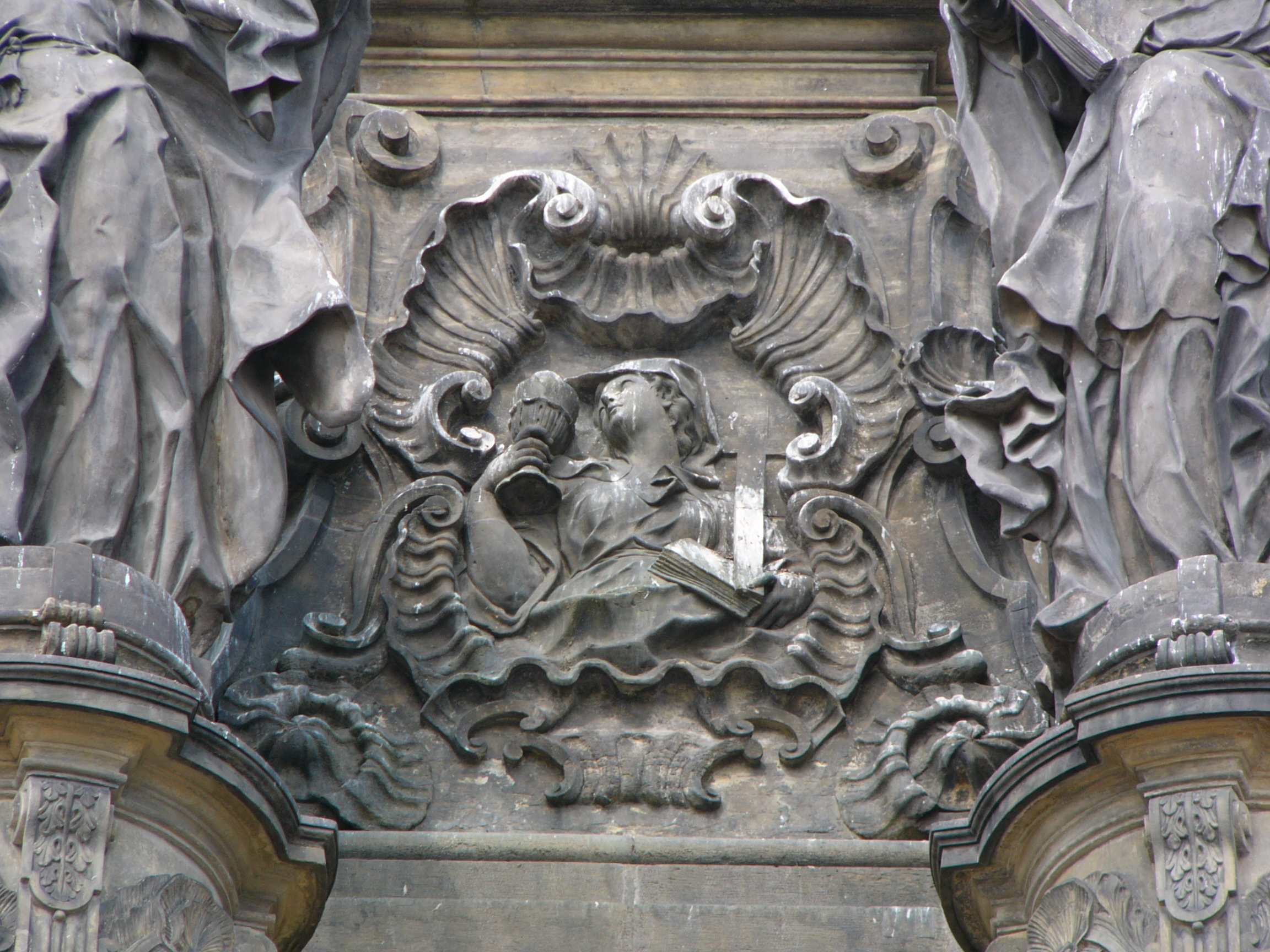 Relief of allegory of Faith on the Holy Trinity Column in Olomouc in Olomouc (Czech Republic).